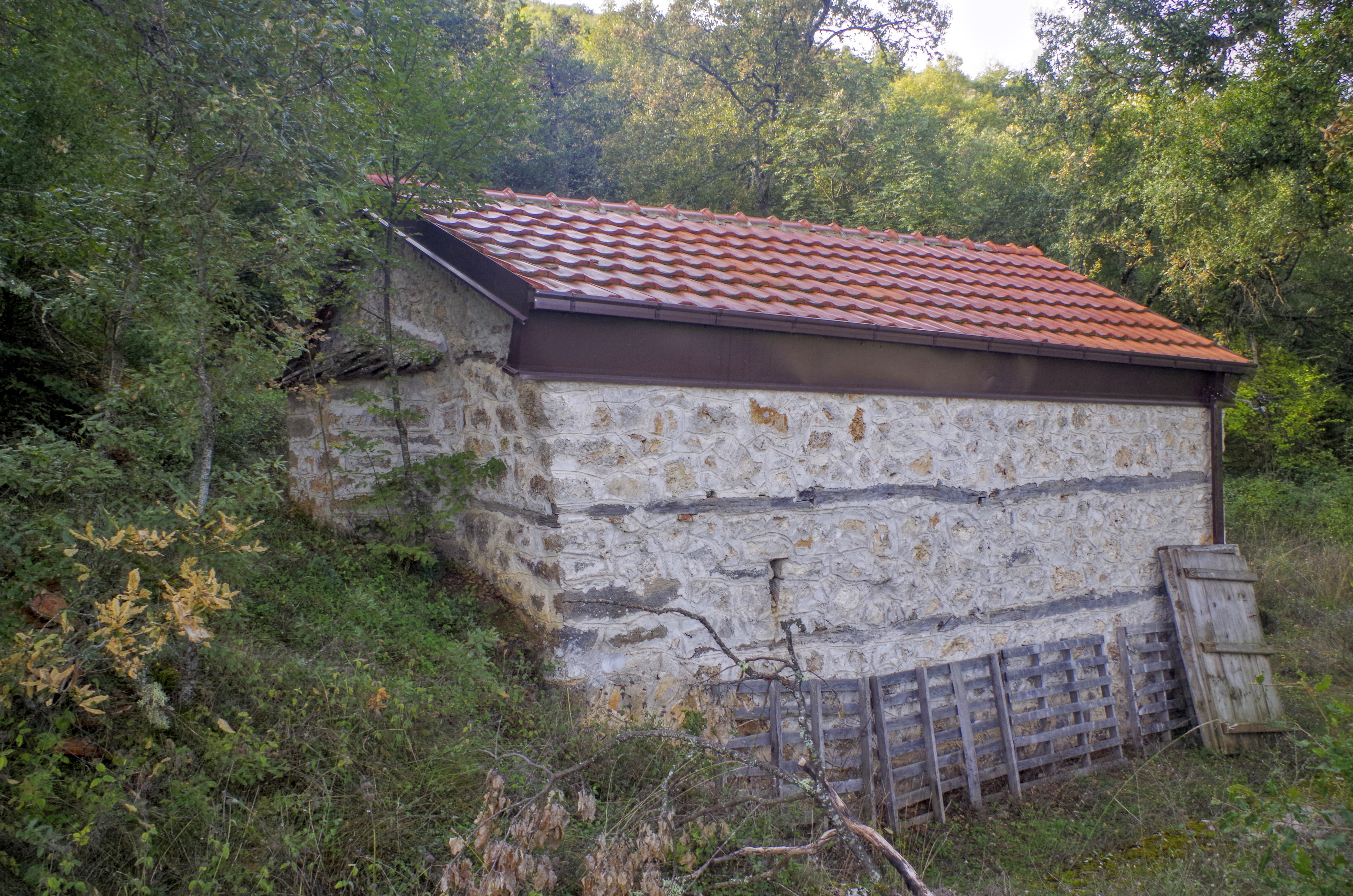 View of the St. Athanasius Church in the village Stenje